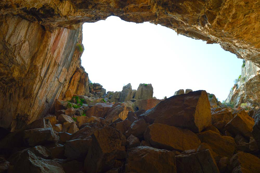 Cave Frahthi - Argolida Greece